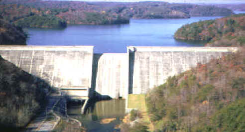 Philpott Dam